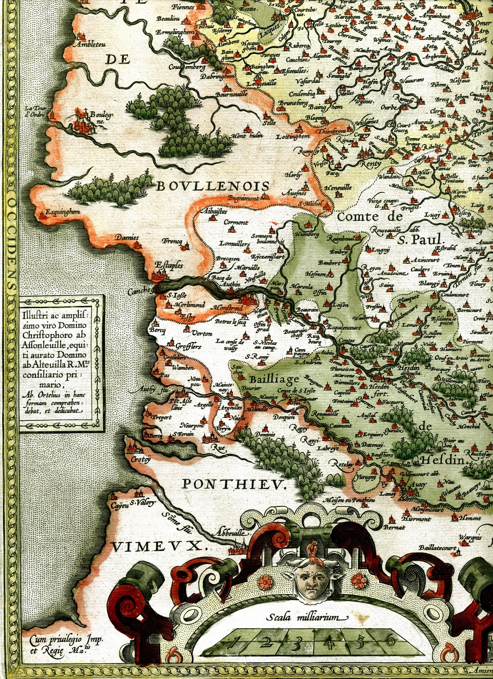 Map of Artois by Ortellius 1576 - private collection